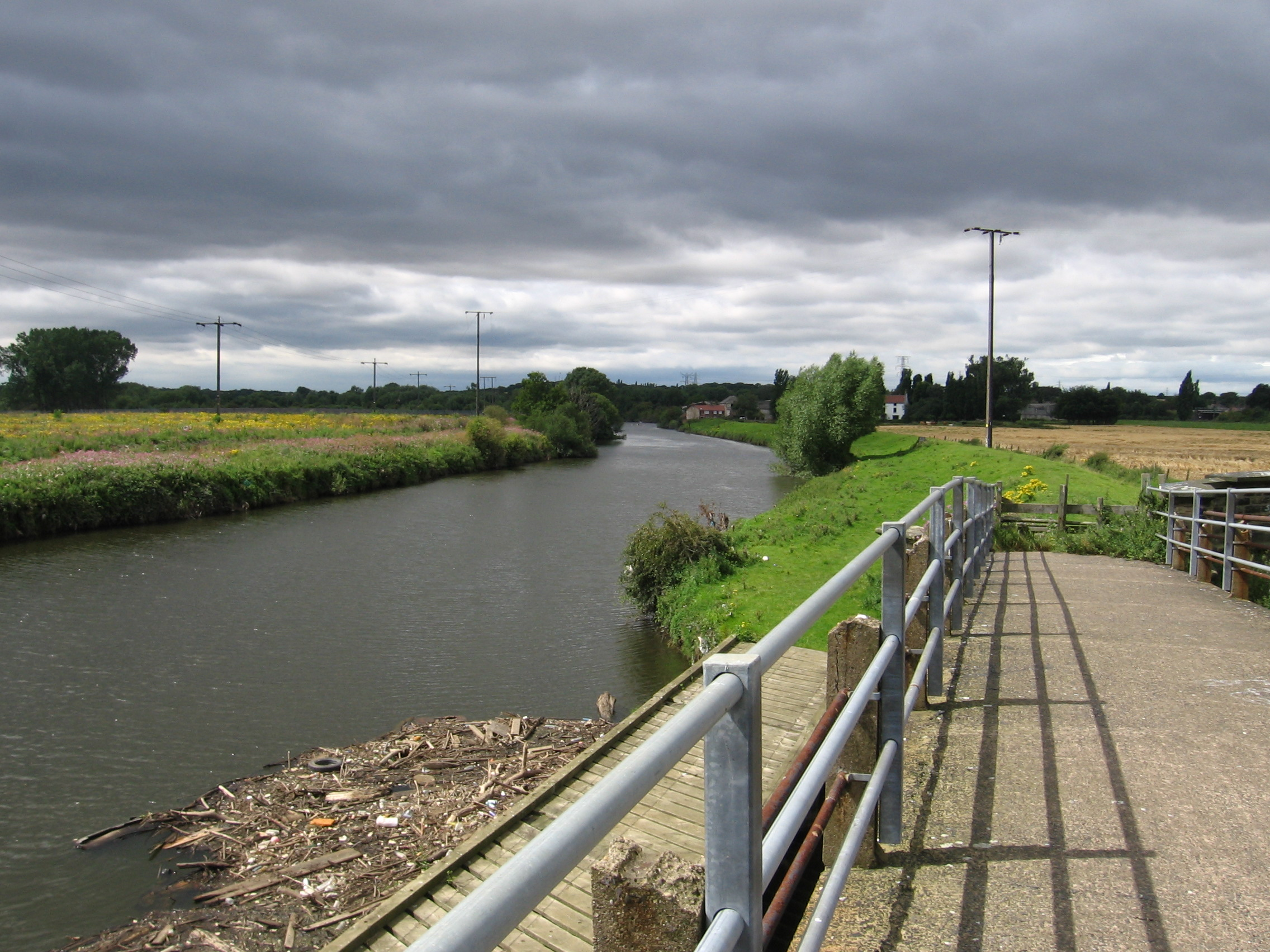 Doncaster - Don Footbridge & View to Newton